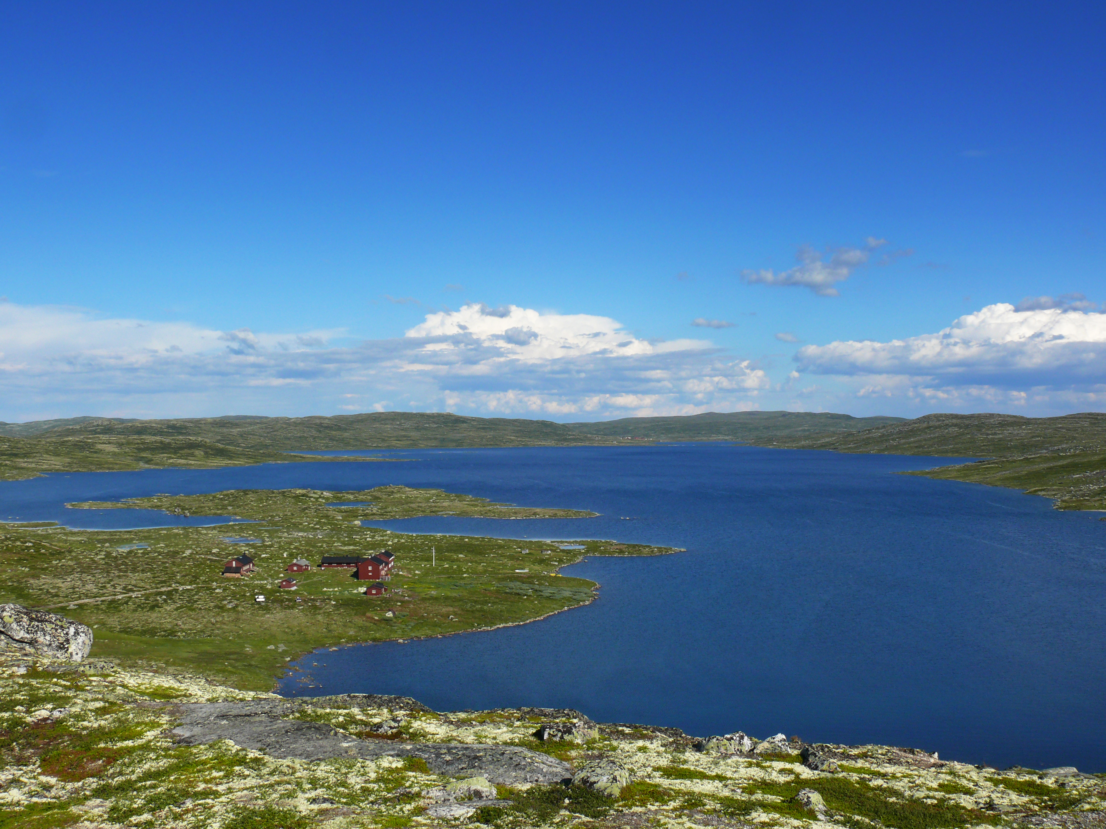 The lake Storkrækkja in Hol, Buskerud, Norway. Krækkja tourist hut in the foreground.